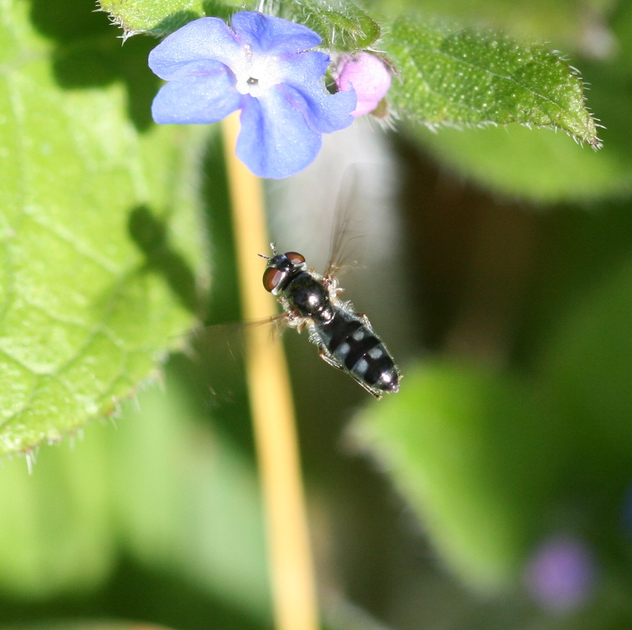 Platycheirus albimanus (female) - a small undergrowth hoverfly species.